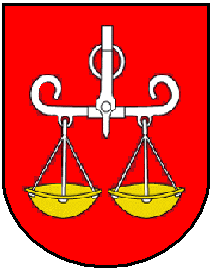 Coat of arms of Wagenhausen, Canton of Thurgau, SwitzerlandEsperanto: Blazono de Wagenhausen, Kantono Turgovio, Svislando